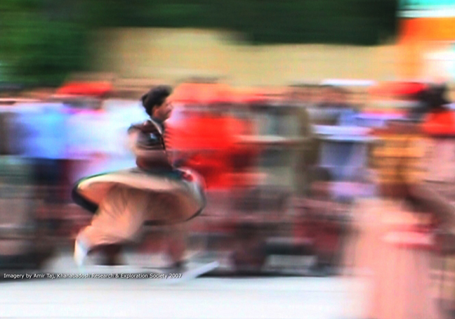 Khattak is a swift martial sword-dance of the Khattak tribe of Pashtuns in Pakistan and Afghanistan. It is one of the Pashtun folk dances known as Atanr, not the classical Indian style of dance known as Kathak. Katthak is danced to fast music featuring the piper clarion and drums beaten with sticks. Up to 40 men dance together wielding swords or handkerchiefs, performing acrobatic feats. The fast tempo of Khattak distinguishes it from other Atanr which start slow and pick up speed as the dance progresses. Khattak dancers also lack Sanrry, the distinctive hairstyle.